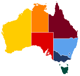 The map of Australian Inter-League football states but with each state coloured in by that states main jumper colour.